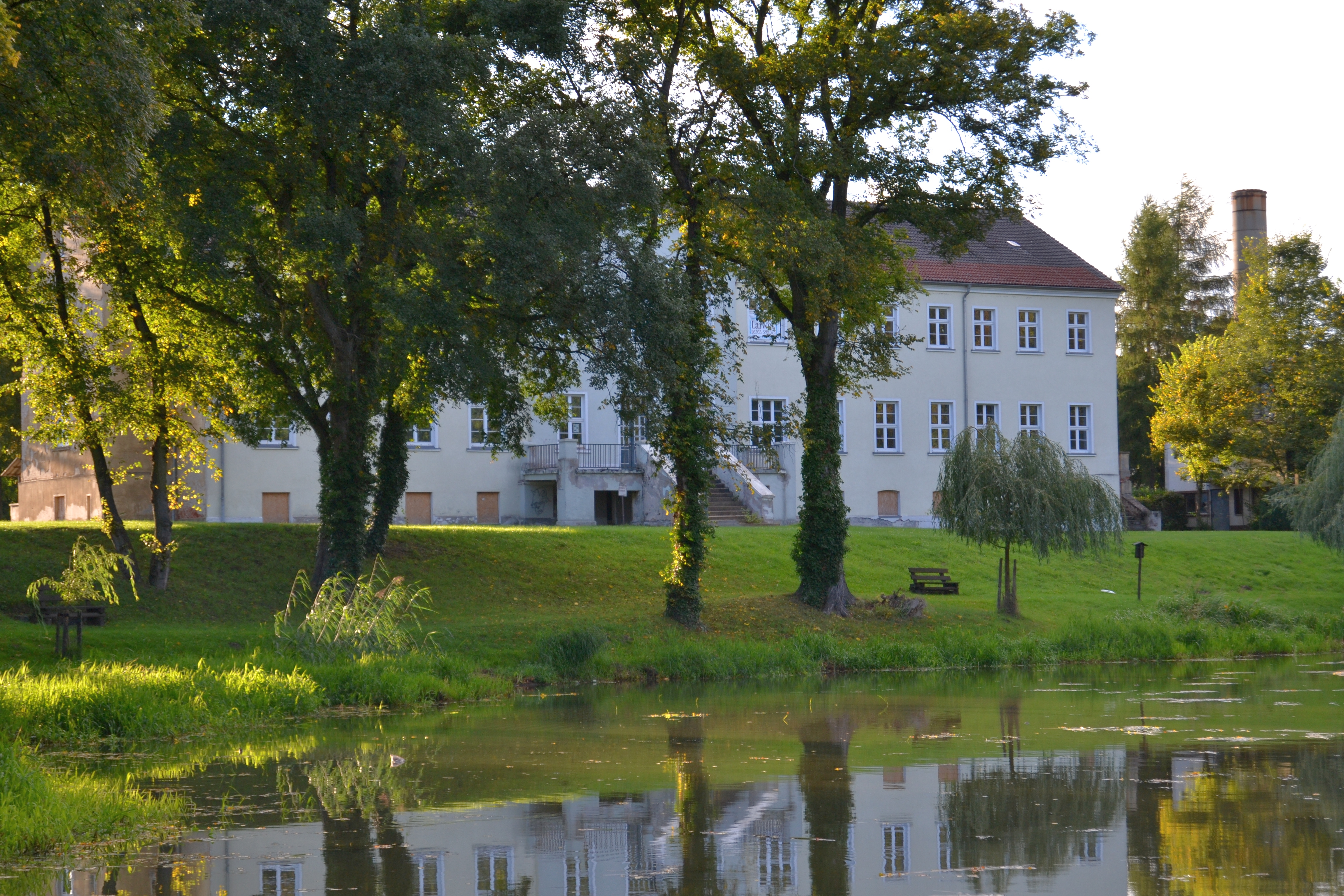 Manor house, park (1830 by Peter Joseph Lenné) etc. in Gorgast